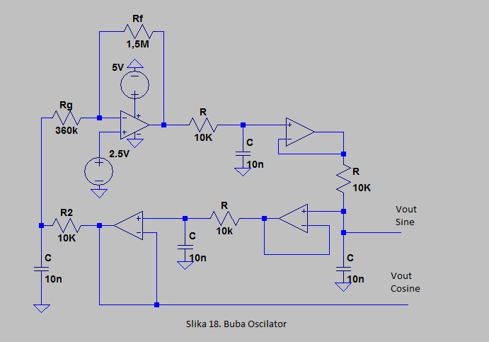 I'm create this file.